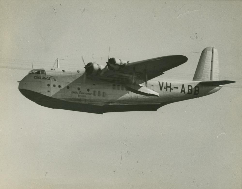 Photographer: George Jackman Location: Queensland, Australia Information about State Library of Queensland’s collection: .au/